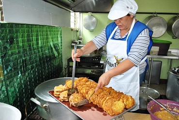 Soup Kintchen in Mexico city